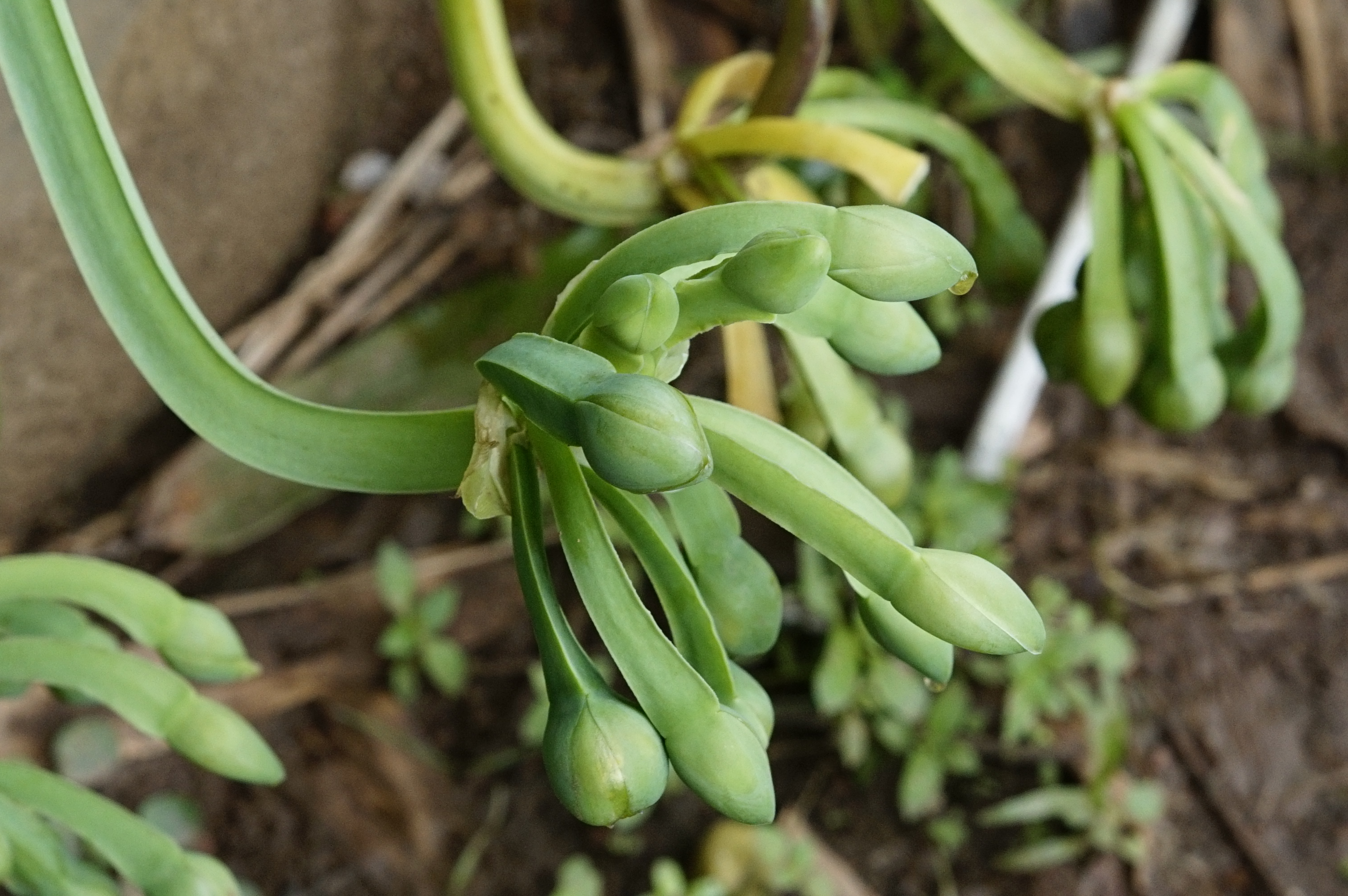 Nilambur